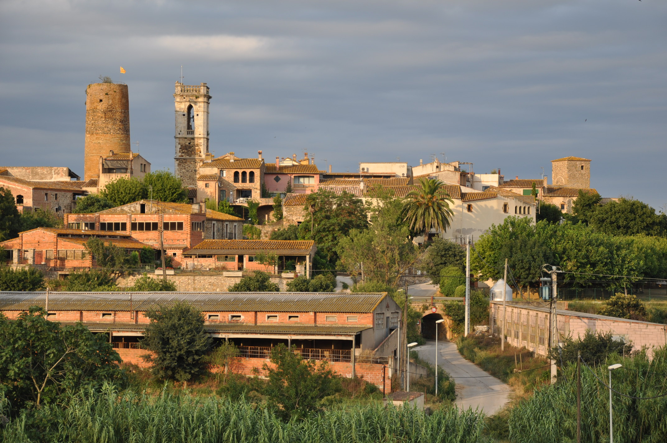 The village of Cruïlles (Comarca of Baix Empordà, Catalonia, Spain) lies 2.8 km west of La Bisbal d'Empordà.